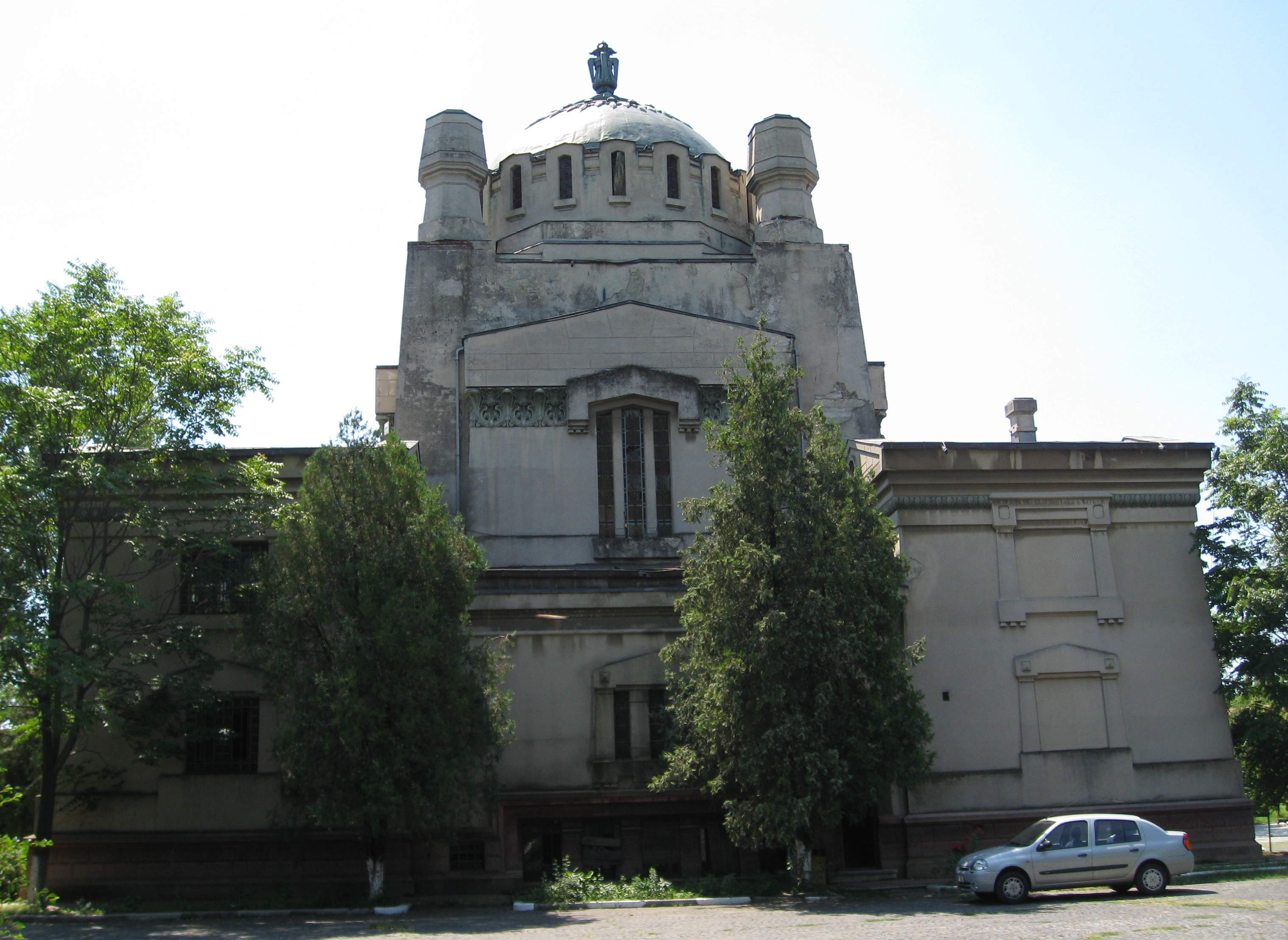 Crematorium in Bucharest, RomaniaRomână: Crematoriul Cenușa din București